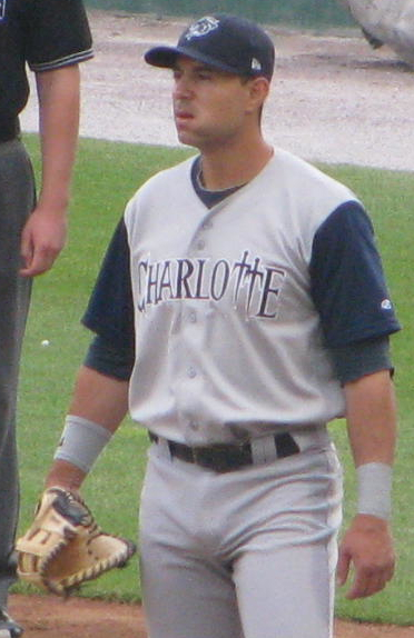 Charlotte Knights first baseman / outfielder, Josh Kroeger.